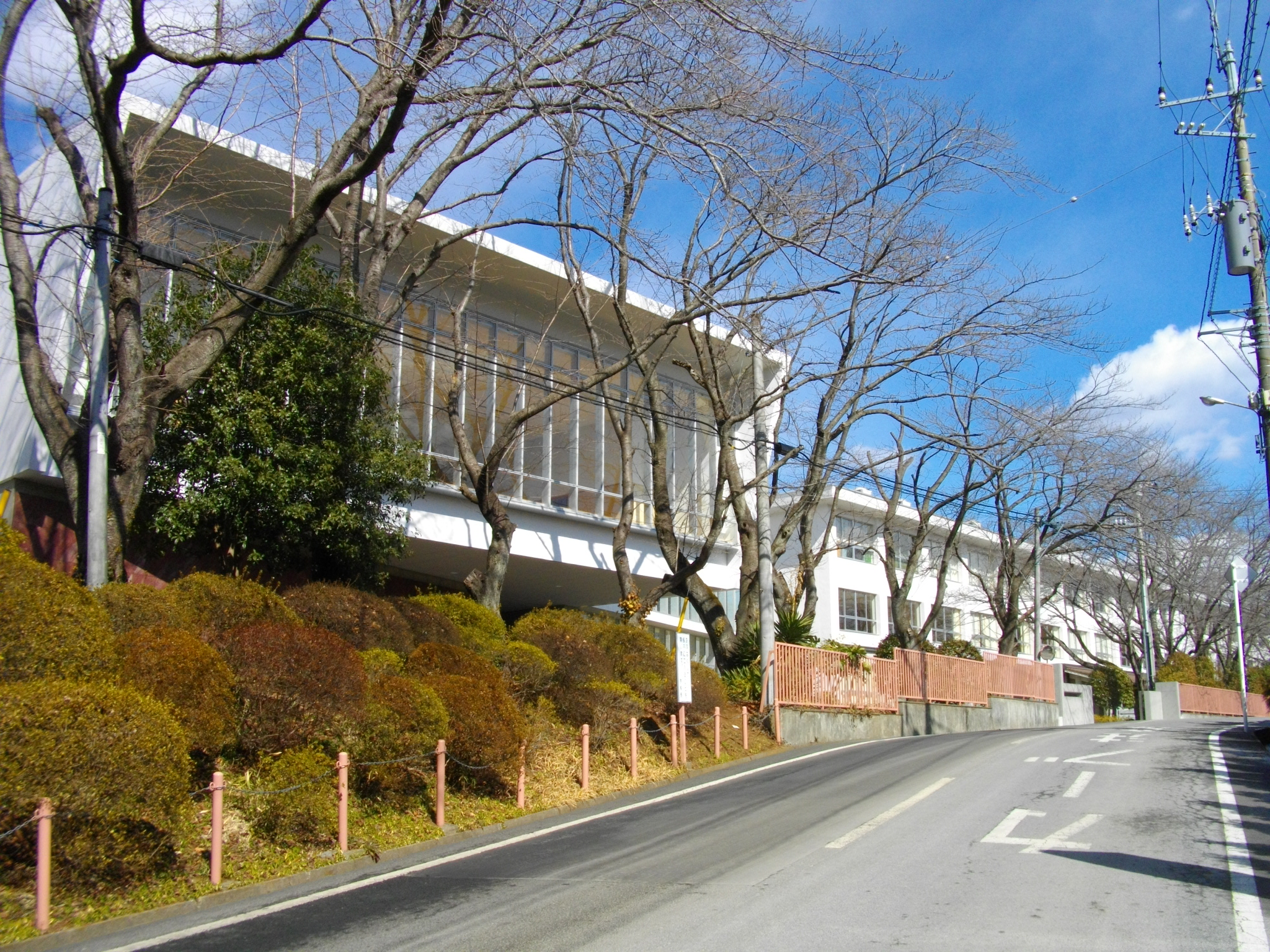 Kashiwa Junior & Senior High School Attached to Nishogakusha University